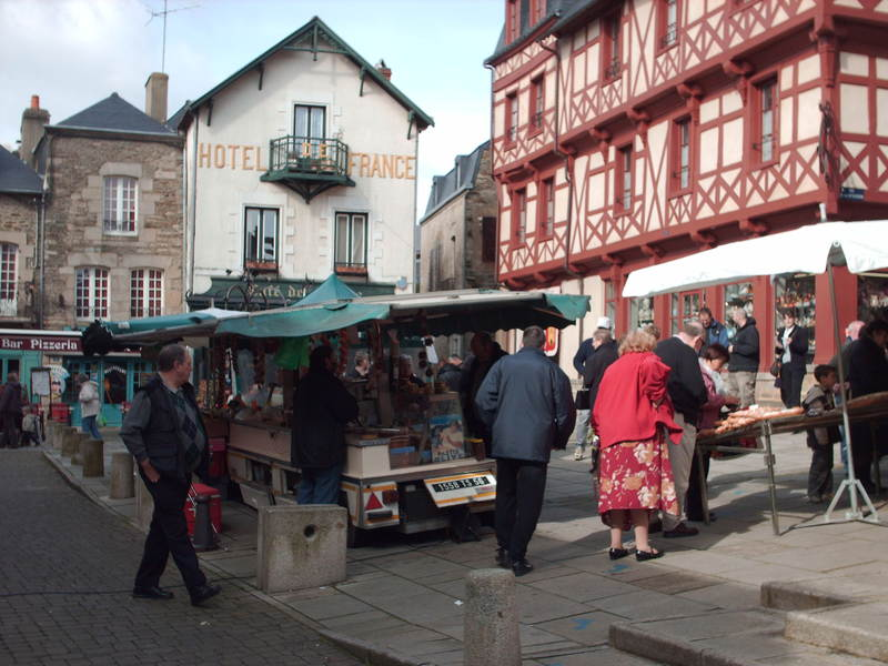 Image from Josselin Market, Morbihan, Brittany